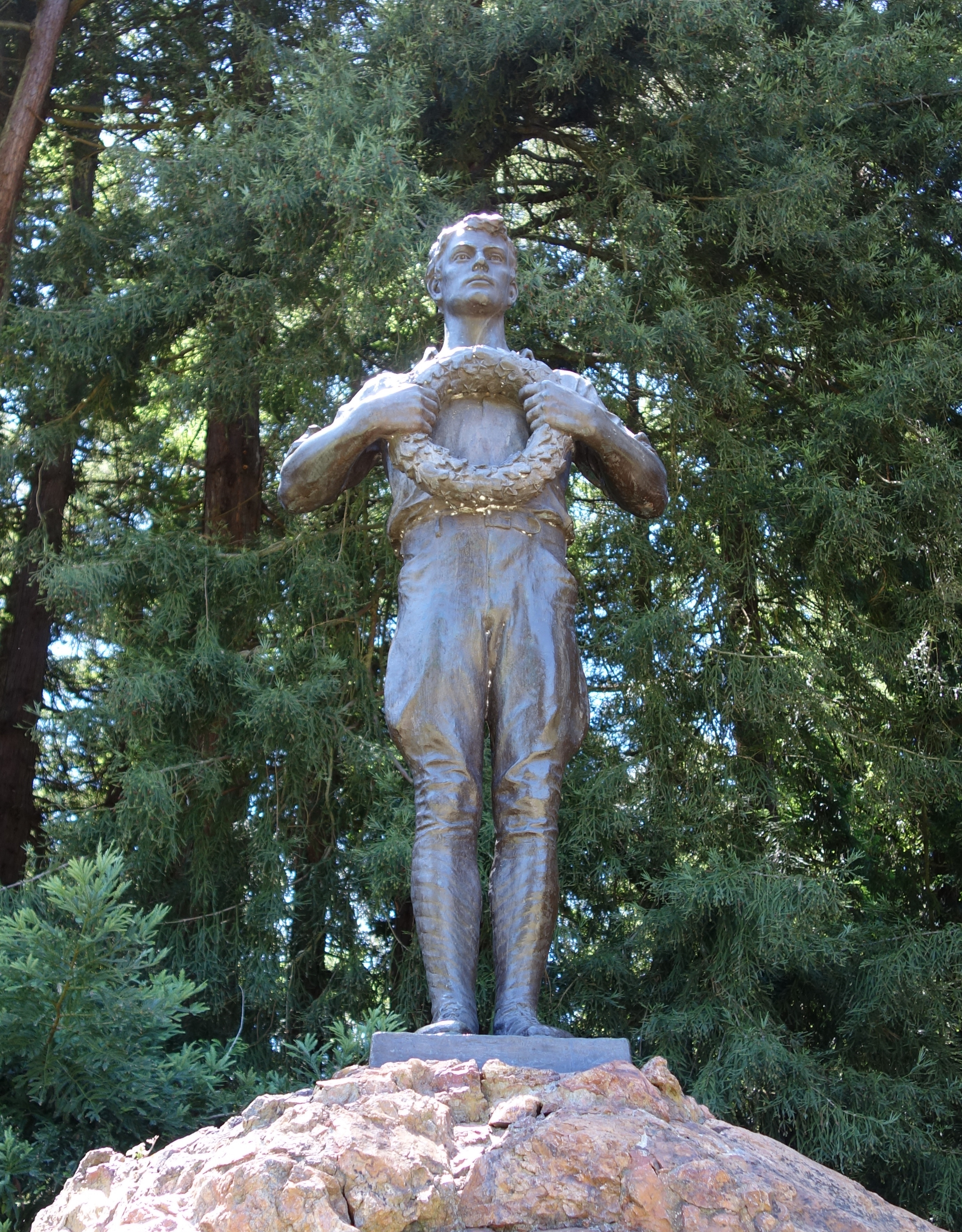 The Doughboy by Melvin Earl Cummings (1876-1936) - Golden Gate Park, San Francisco, California, USA. Created in 1928, installed in 1930. Plaque dates to June 3, 1951. Smithsonian Institution Control Number: IAS 88750009. Inscription: "This grove is dedicated to the memory of the members of the San Francisco Parlors, Native Sons of the Golden West, who gave their lives in the World's Wars I and II. / World War I 1917-1918 / Names / World War II 1941-1945 / Names / By the Grove of Memory Association, Native Daughters of the Golden West and Native Sons of the Golden West, June 3, 1951." This artwork is in the public domain because the artist died more than 70 years ago.